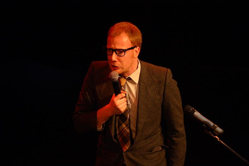 stand up comedian David Galle